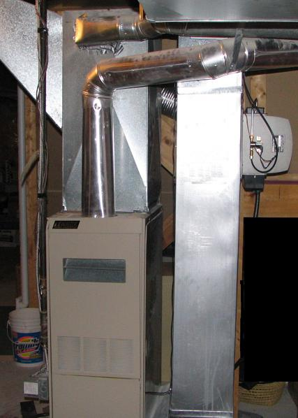 Natural Gas Forced air furnace (Model: Lennox G8Q3-90E. Manufactured - 1991)